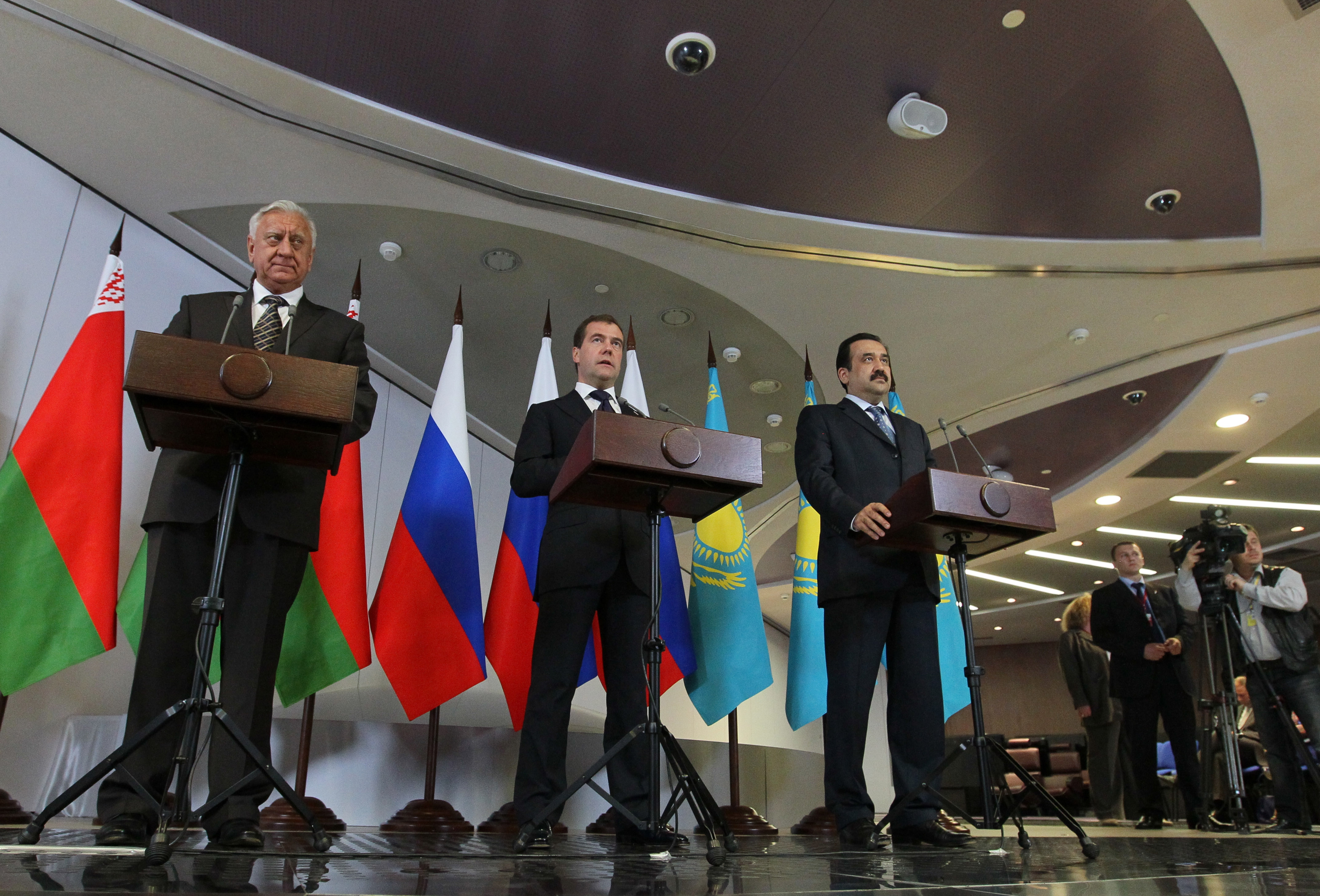 Prime Minister of Belarus Mikhail Myasnikovich, Prime Minister of the Russian Federation Dmitry Medvedev and Prime Minister of Kazakhstan Karim Massimov at a joint press conference in St. Petersburg.